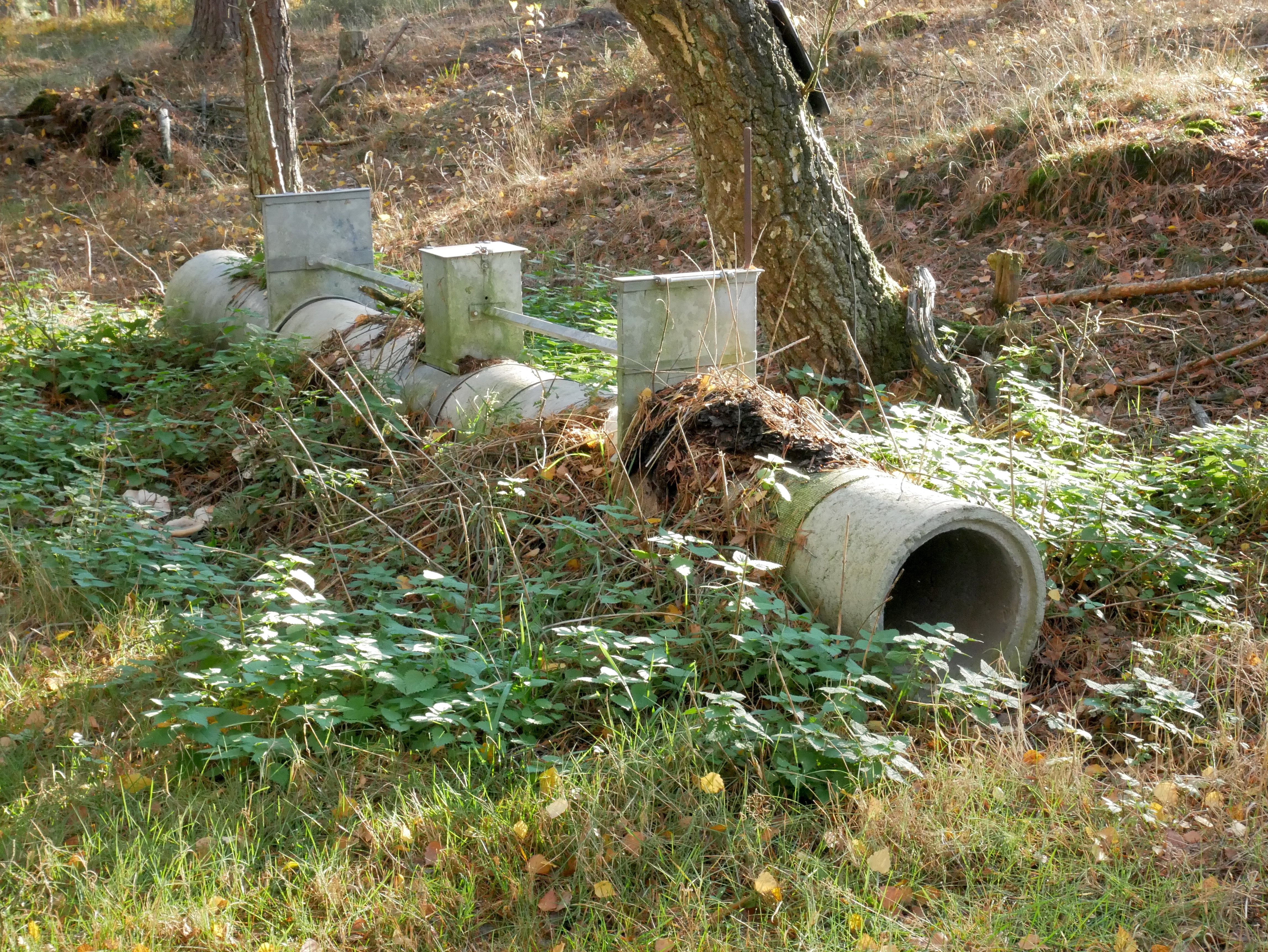 live capture trap in Lower Saxony, Germany